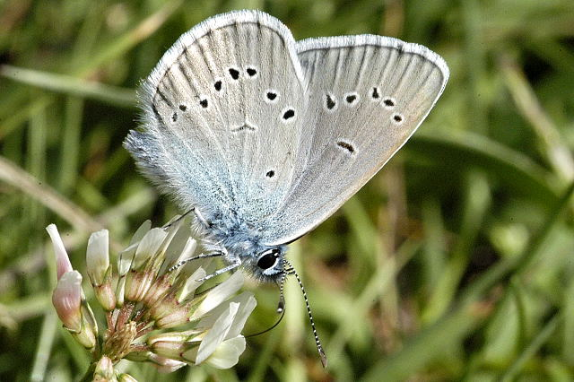 Picture taken in Commanster, Belgian High Ardennes . Species: Polyommatus semiargus